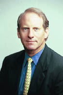 Photograph of Richard N. Haass, from his official State Department biography [1] ("Unless a copyright is indicated, information on the Department of State Web Site is in the public domain and may be copied and distributed without permission. Citation of the U.S. State Department as source of the information is appreciated." [2]) Biography in brief: (en.wikipedia) Richard Nathan Haass (born 28 July 1951, Brooklyn) has been president of the Council on Foreign Relations since July of 2003, prior to which he was Director of Policy Planning for the United States Department of State and a close advisor to Secretary of State Colin Powell. The U.S. Senate approved Haass as a candidate for the position of ambassador and he has been US Coordinator for policy on the future of Afghanistan. (more...)